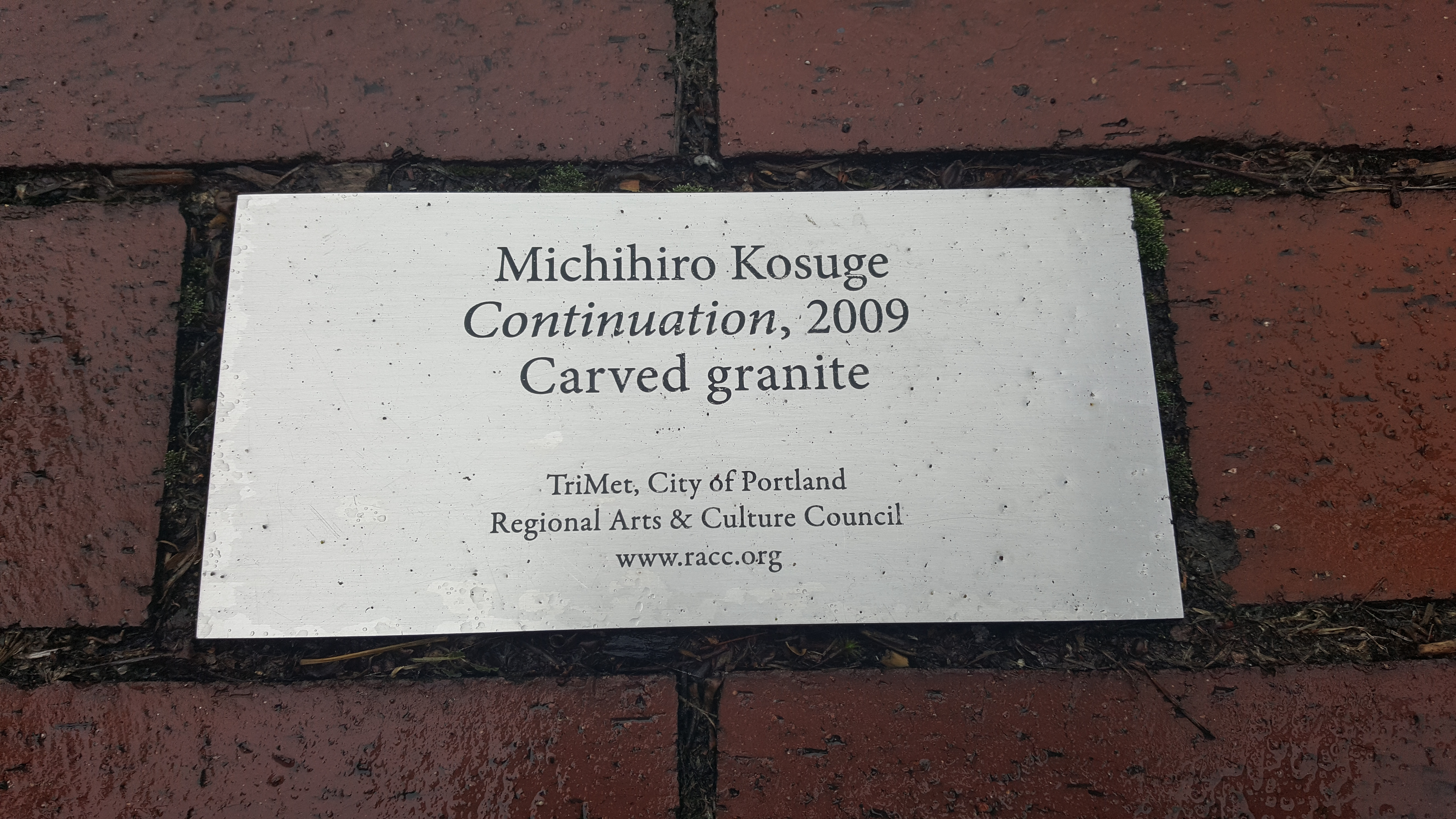 Plaque for Continuation (2009), Portland, Oregon